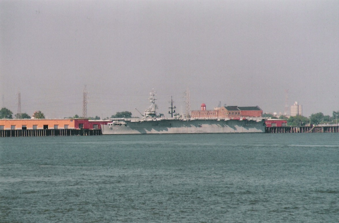 The former light aircraft carrier USS Cabot (CVL-28), 1967 to 1989 Dédalo (R01) of the Spanish navy, at New Orleans, Louisiana (USA), on 29 September 1995. The builings on Press Street visible beyond the wharfs now house the NOCA, the red steeple of St. Vincent de Paul Church, Bywater, is visble in the distance.